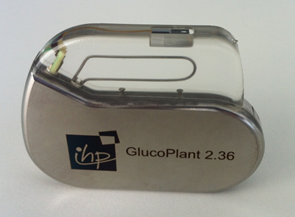 Medical biosensor implant for glucose monitoring in subcutaneous tissue (59x45x8 mm). Electronic components like microcontroller, radio chip etc. are hermetically enclosed in a Ti casing, while ring-shaped antenna and top-most sensor probe are moulded into the transparent epoxy header.[1]